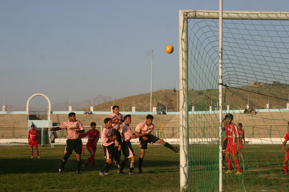 Kabul Stadium is the only stadium in the whole of the country and hosts all sorts of games besides soccer. Category:Images of Afghanistan